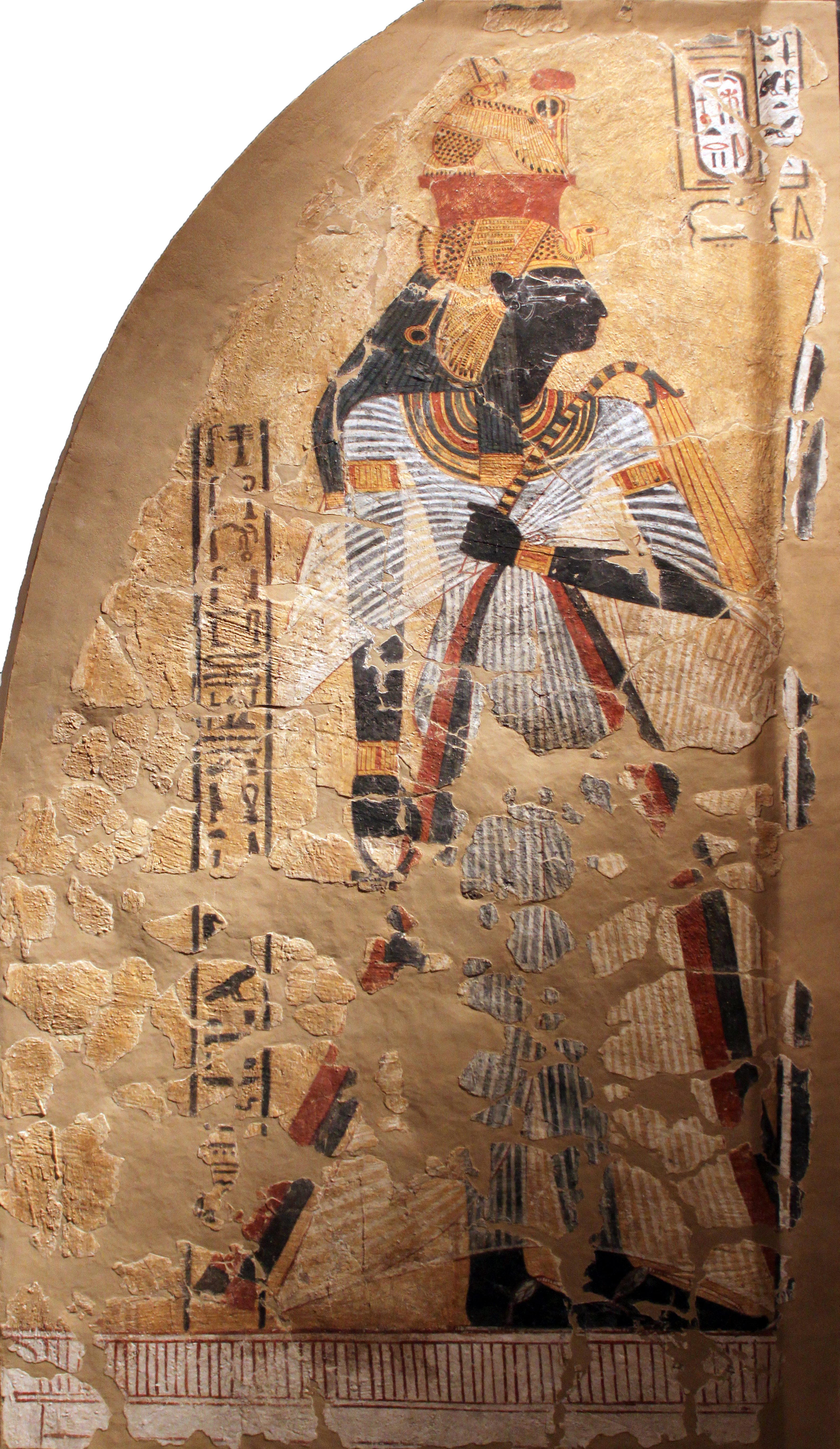 Representation of the defied queen Ahmose-Nefertari; 20th. dynasty (ca. 1152-1145 BC); Neues Museum Berlin, Germany; ÄM 2060